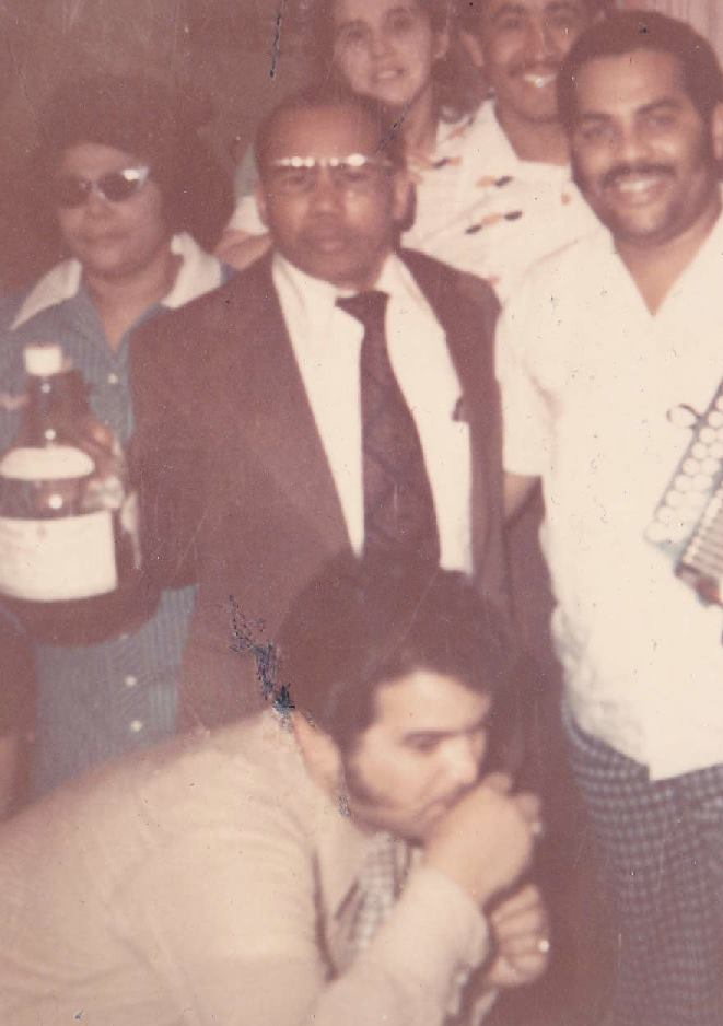 Jesus Rodriguez & Tatico Henriquez can be seen holding their home-made case of Mama Juana.